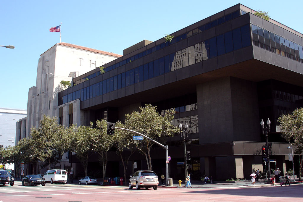 The original's and 1970s addition's facades of the Los Angeles Times Building complex — along First Street at Broadway, in the Civic Center district of Downtown Los Angeles, California. "Here they are, look, the Los Angeles Times building complex photos. The hermetically sealed, dark 70s building that comes and connects to the old historic Times buildings. It is difficult to find the newer building beautiful, but I find it beautiful because of what it does, how it works, and the aesthetics remain, like they both belong to the same aesthetic genre, just evolved."